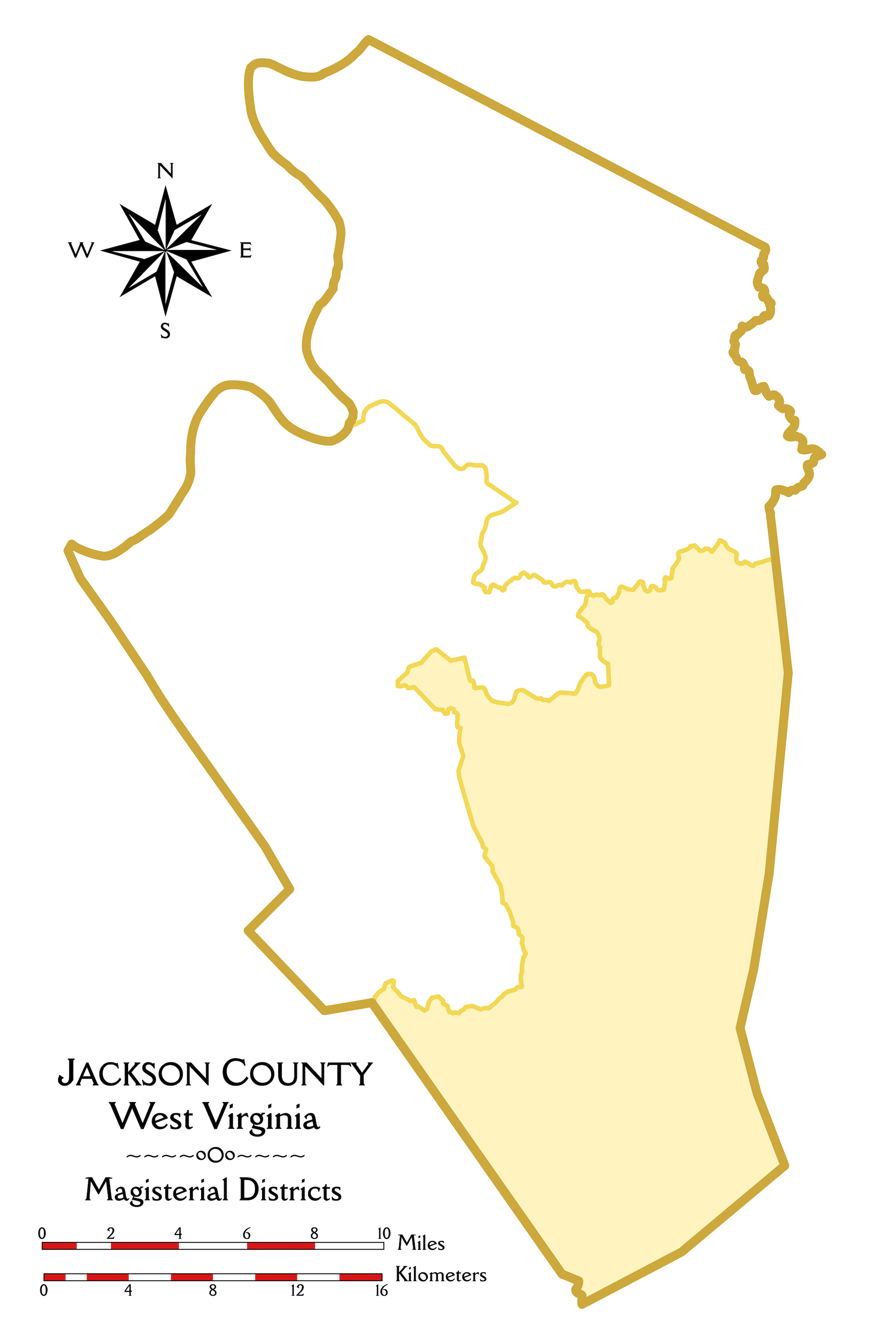 Outline map of Jackson County, West Virginia, showing the boundaries of the magisterial districts. The Eastern Magisterial District is shaded.